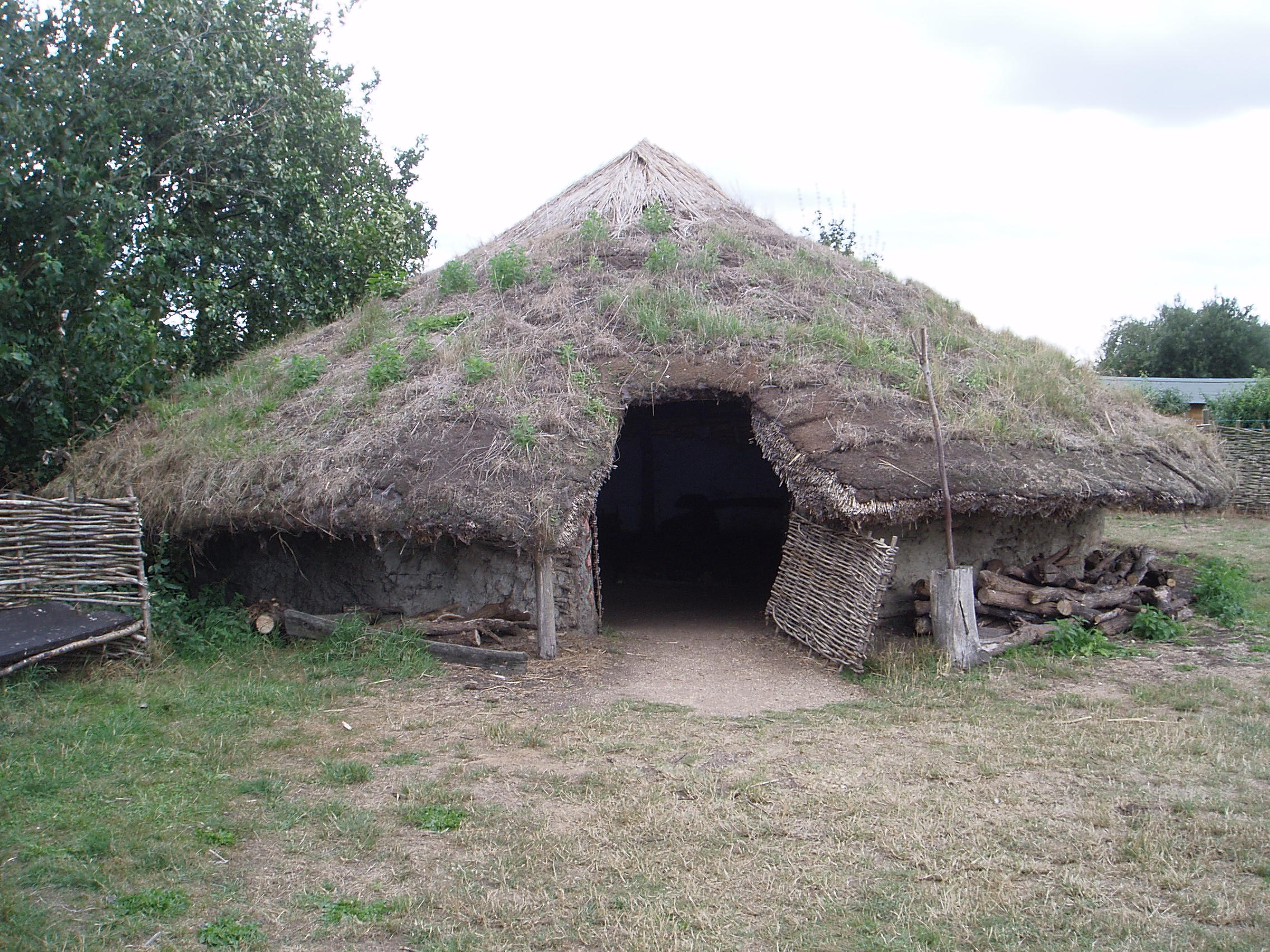 Photograph by Ian and Viv Hamilton, taken at Flag Fen on 10 August, 2006